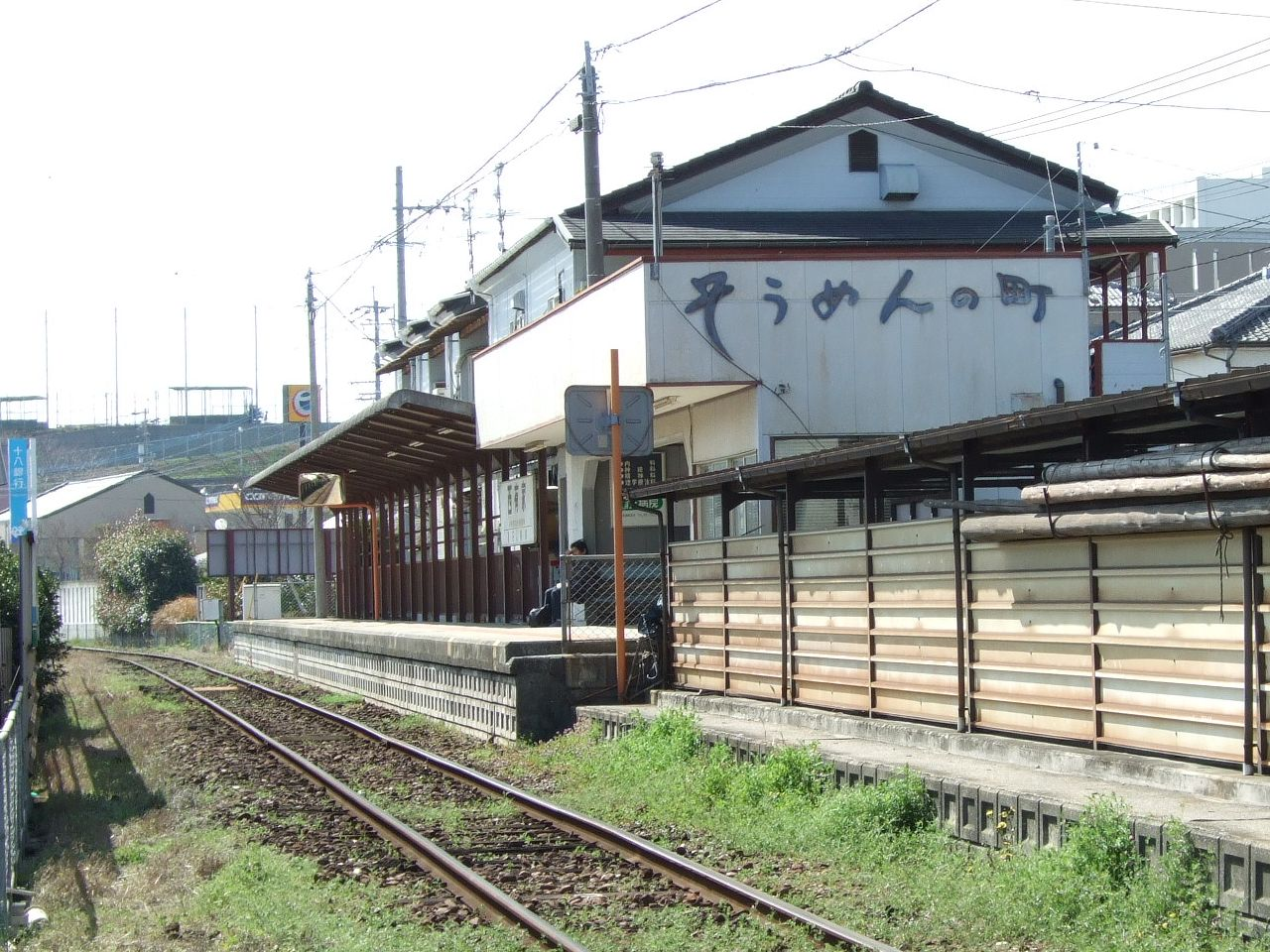 Nishiarie Station, Shimabara Railway Line.